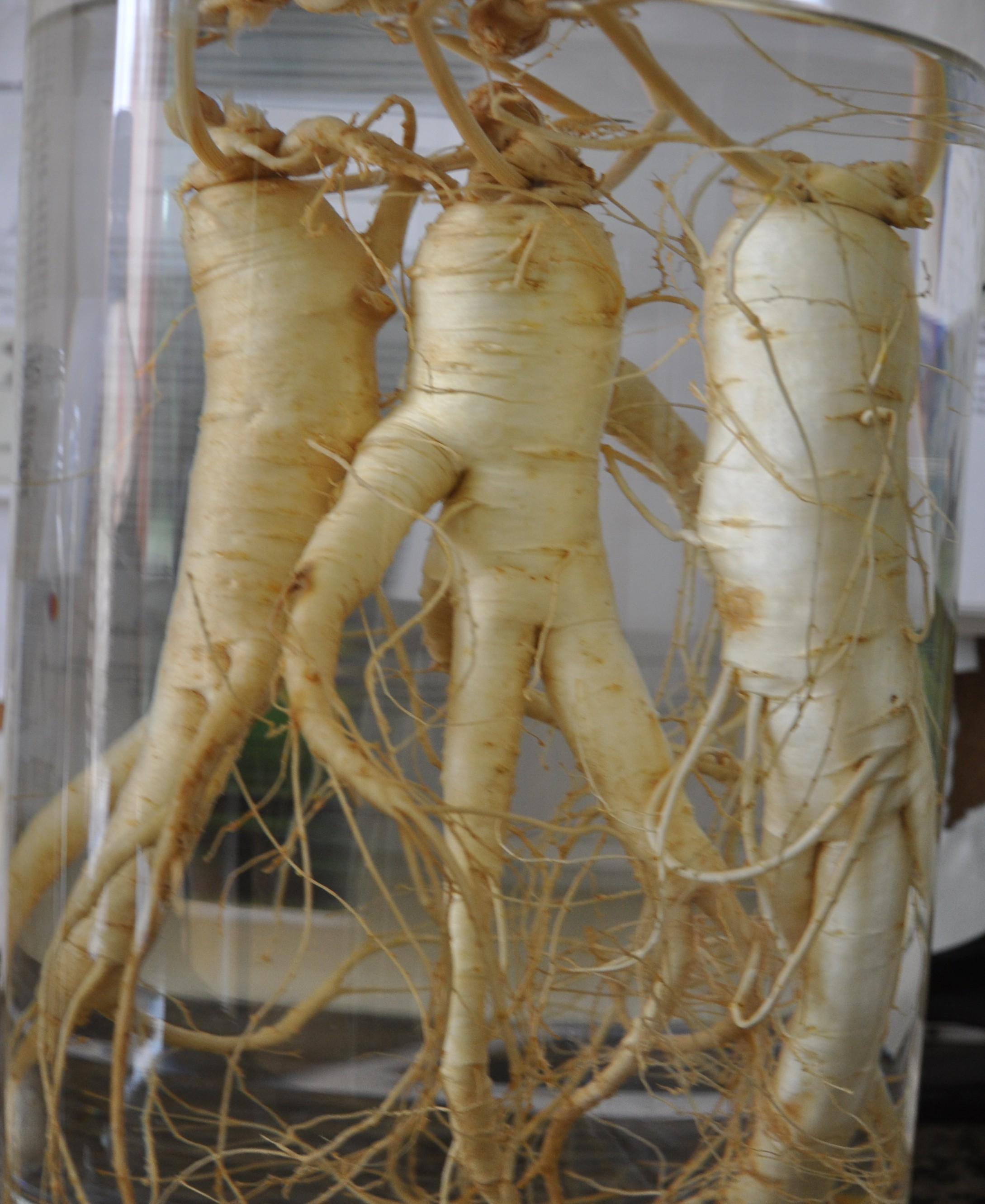 Cultivated Wisconsin ginseng roots in human figures, immersed in vodka.